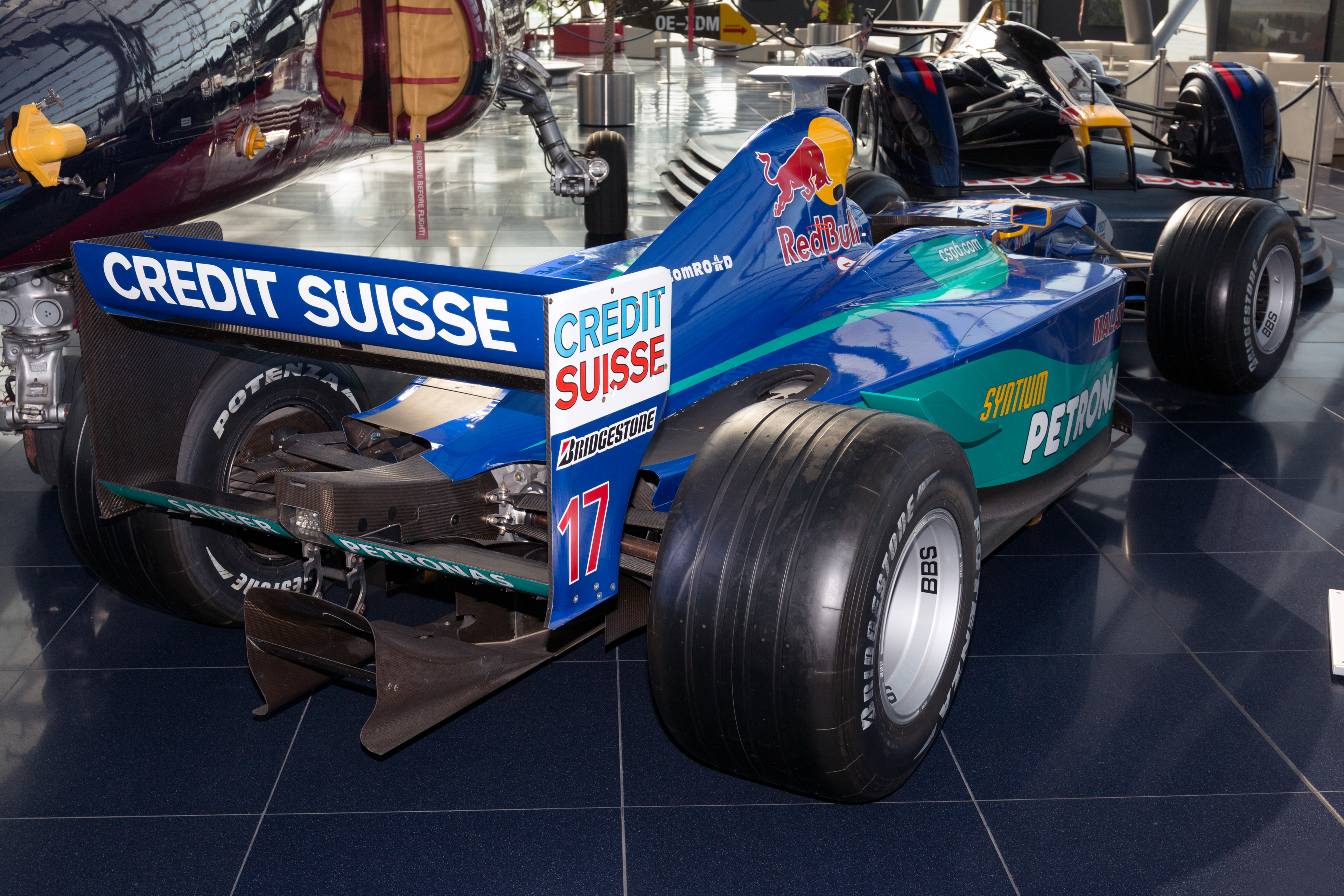 Hangar-7: Sauber C20